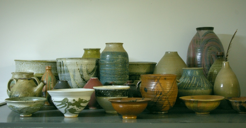 A grouping of ceramic pots from the 1950s by Harvey Littleton